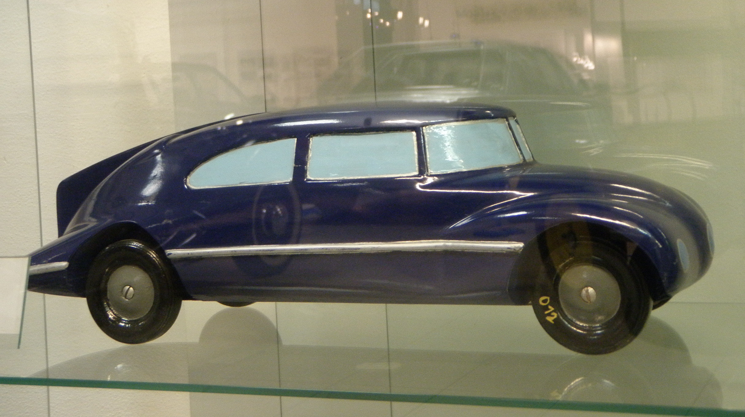 The maquette of Tatra 77 1:10 by Paul Jarray.